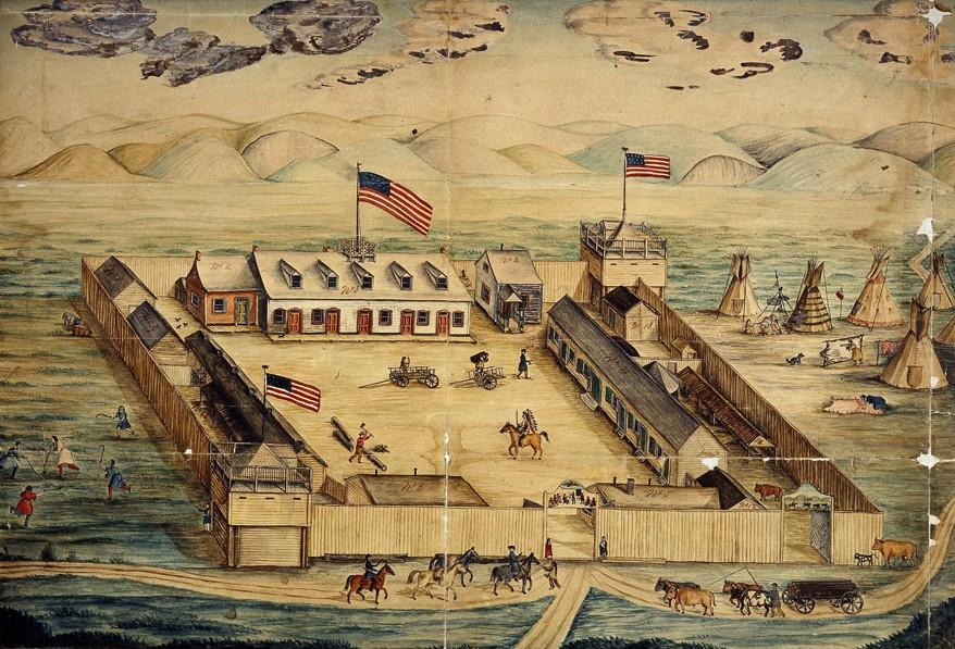 Watercolor drawing of Fort Pierre Chouteau, in what is now South Dakota.